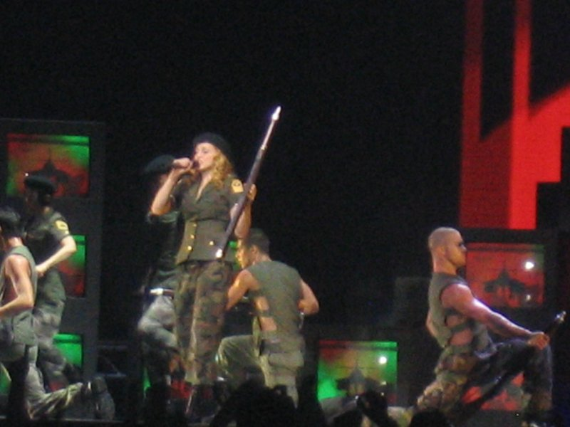 Picture taken by a fan from one of the 2004 concerts